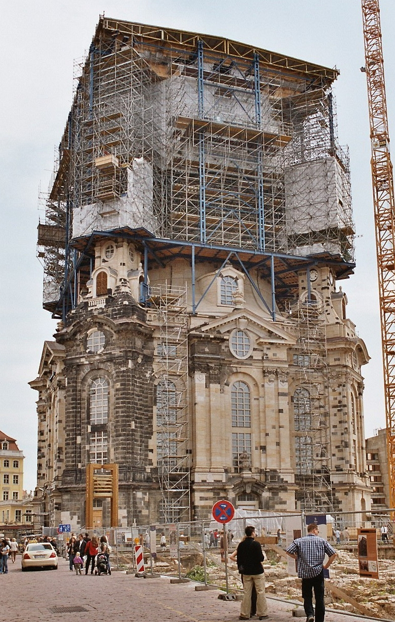 Germany, Saxony, Dresden: Frauenkirche (Church of Our Lady) during period of reconstruction.